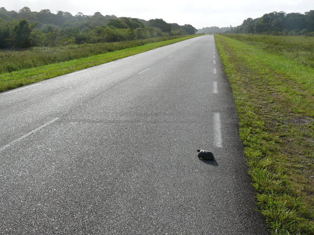 Saturday 14 June 2008: a tortoise on the road. Gently deposited on the other side after these shots were taken. Species is Chelonoides carbonaria.